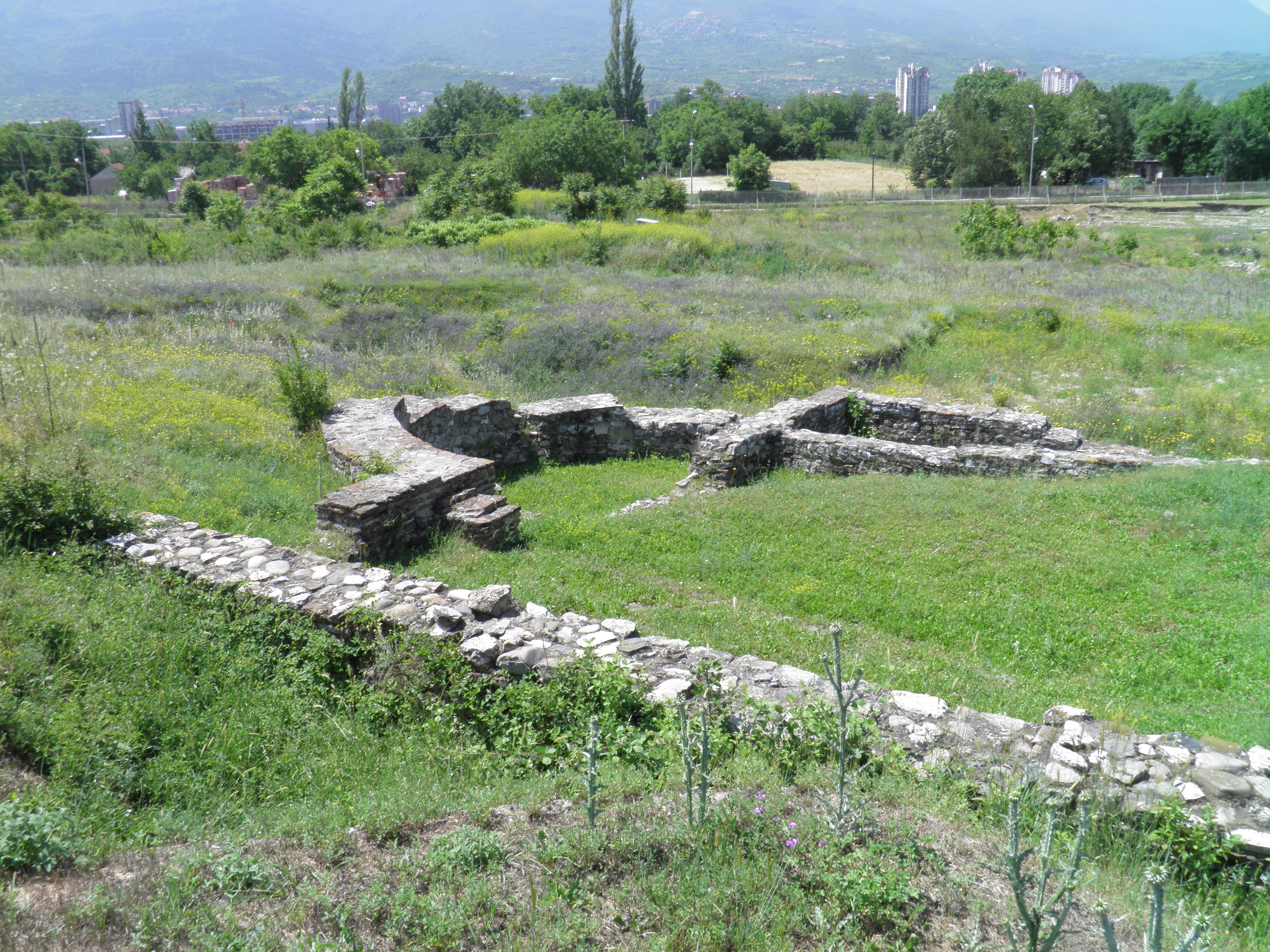 Stobi, Macedonia